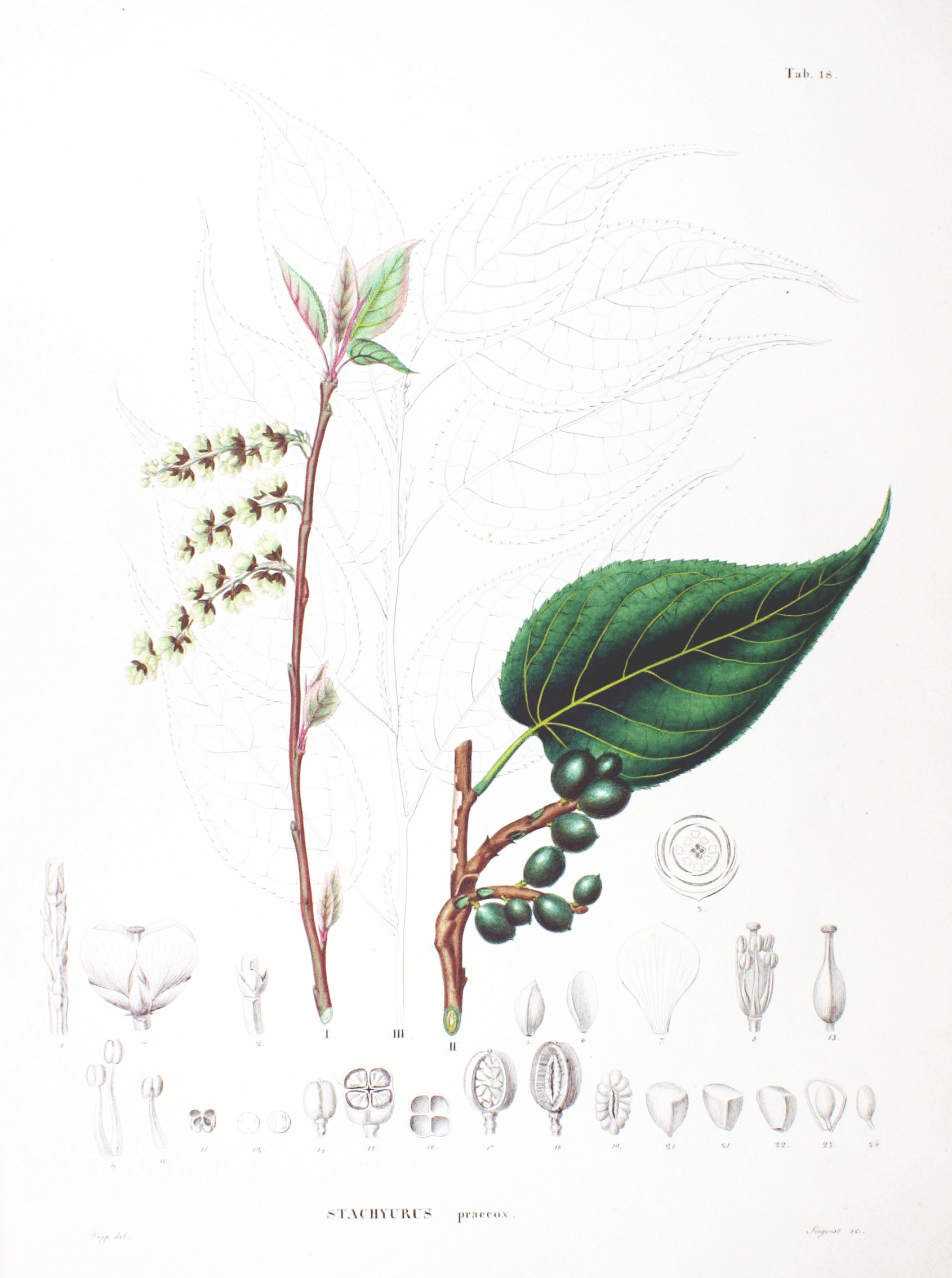 Plate from book